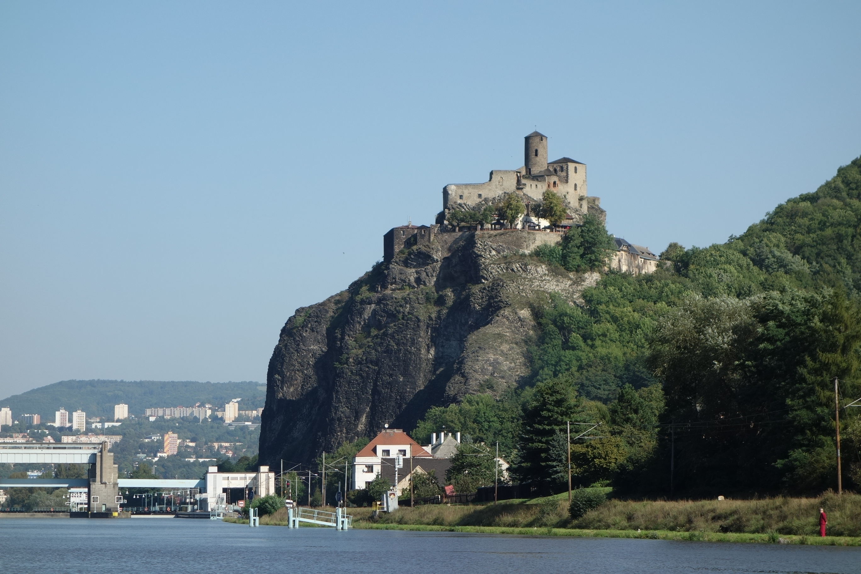 Střekov (castle) in Usti